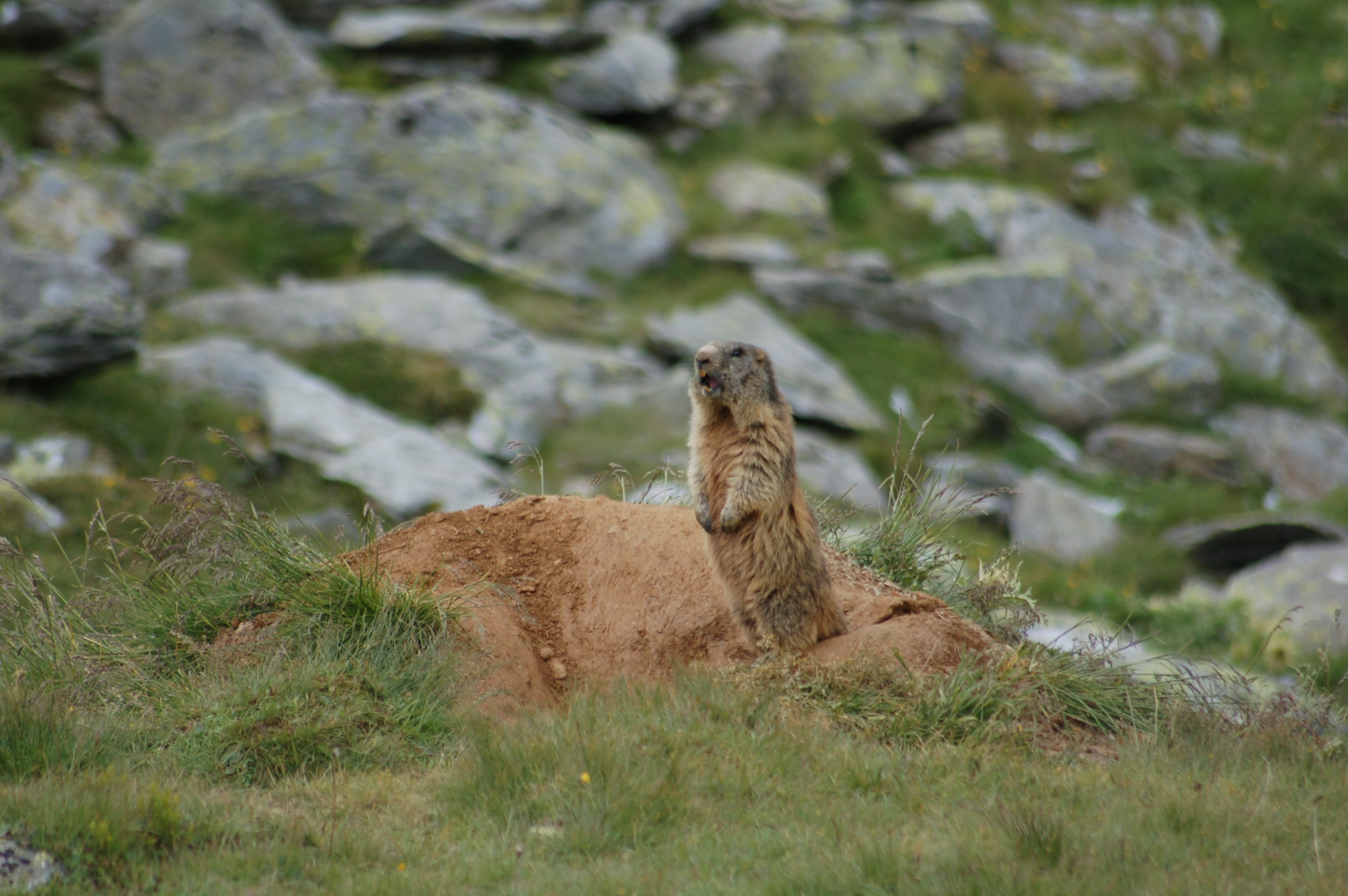 Alpine marmot